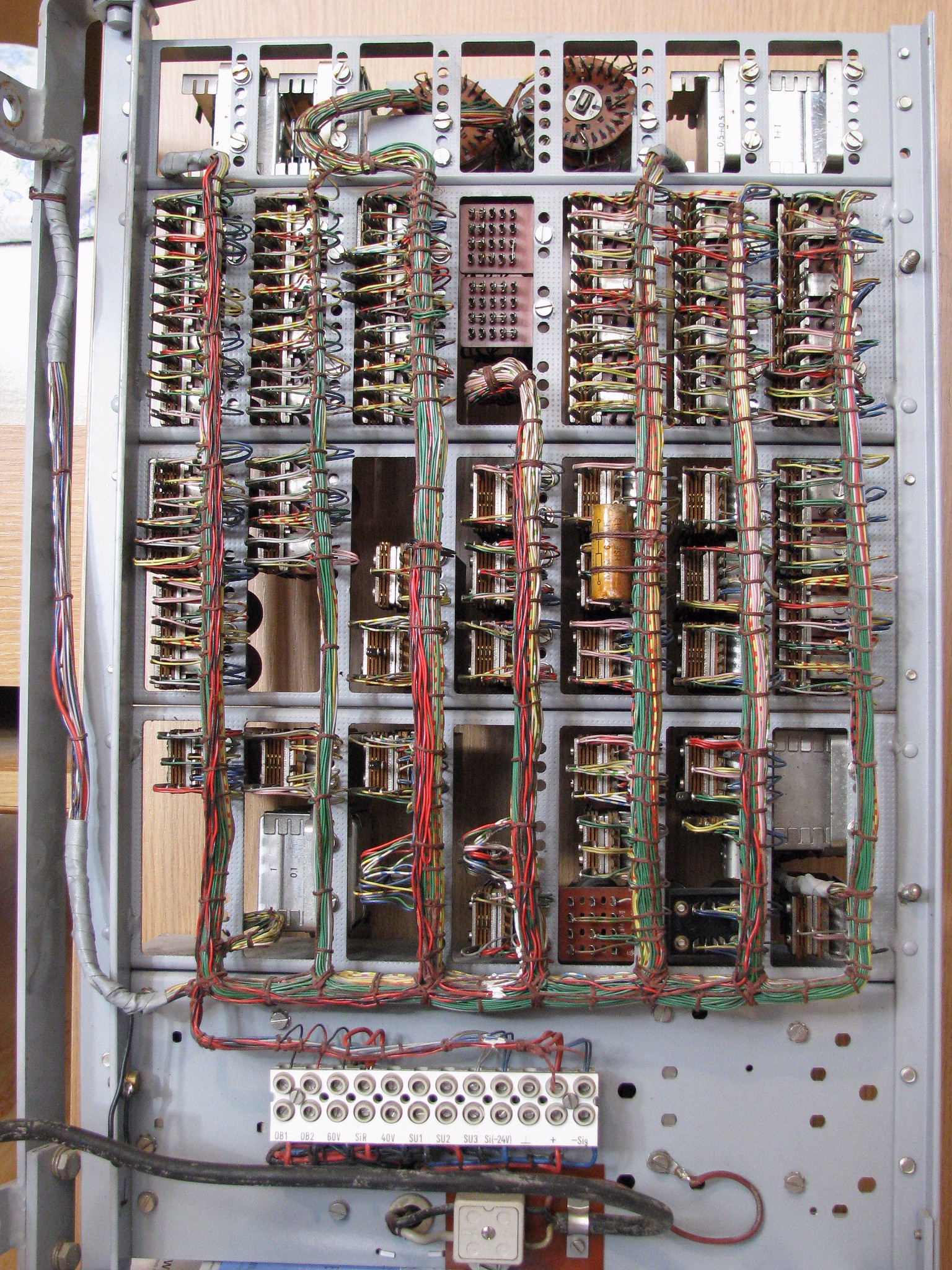 PABX (private automatic branch exchange) with relays and cable laced wiring harnesses (early 1970s technology)